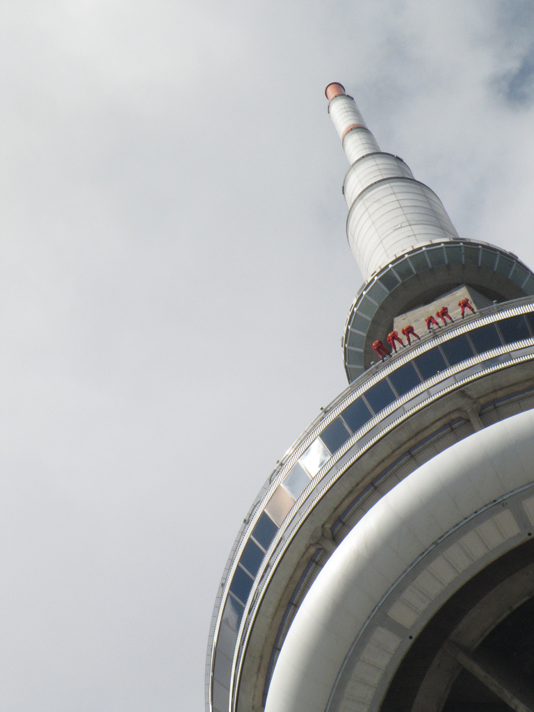 Edgewalk participants on te CN Tower in Toronto, Ontario, Canada. Edgewalk is the world’s highest full circle hands-free walk on a 5 ft (1.5 m) wide ledge encircling the top of the Tower’s main pod, 356m/1168ft (116 storeys) above the ground.